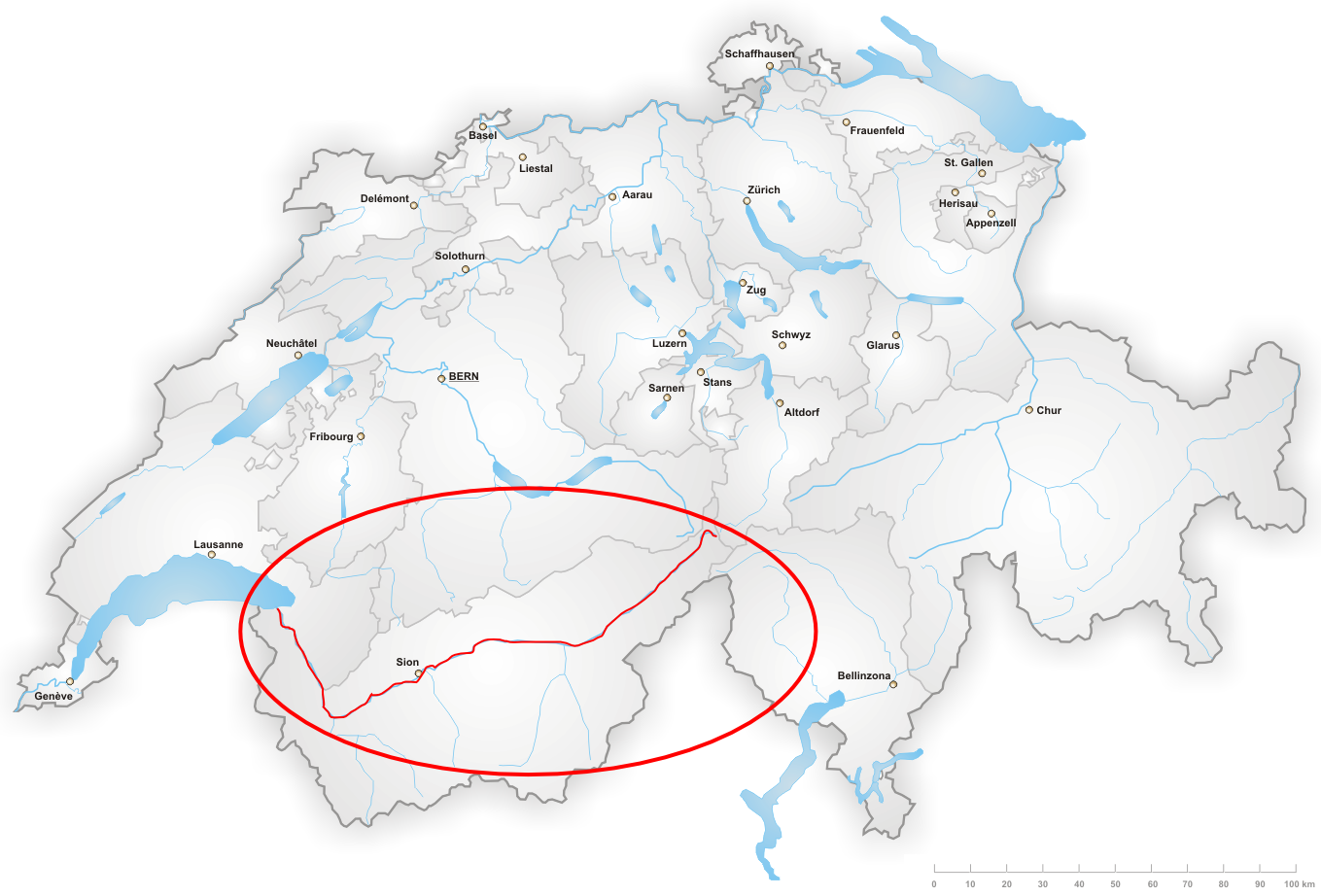 Map showing the path of the Rhone river, before joining the Leman lake.